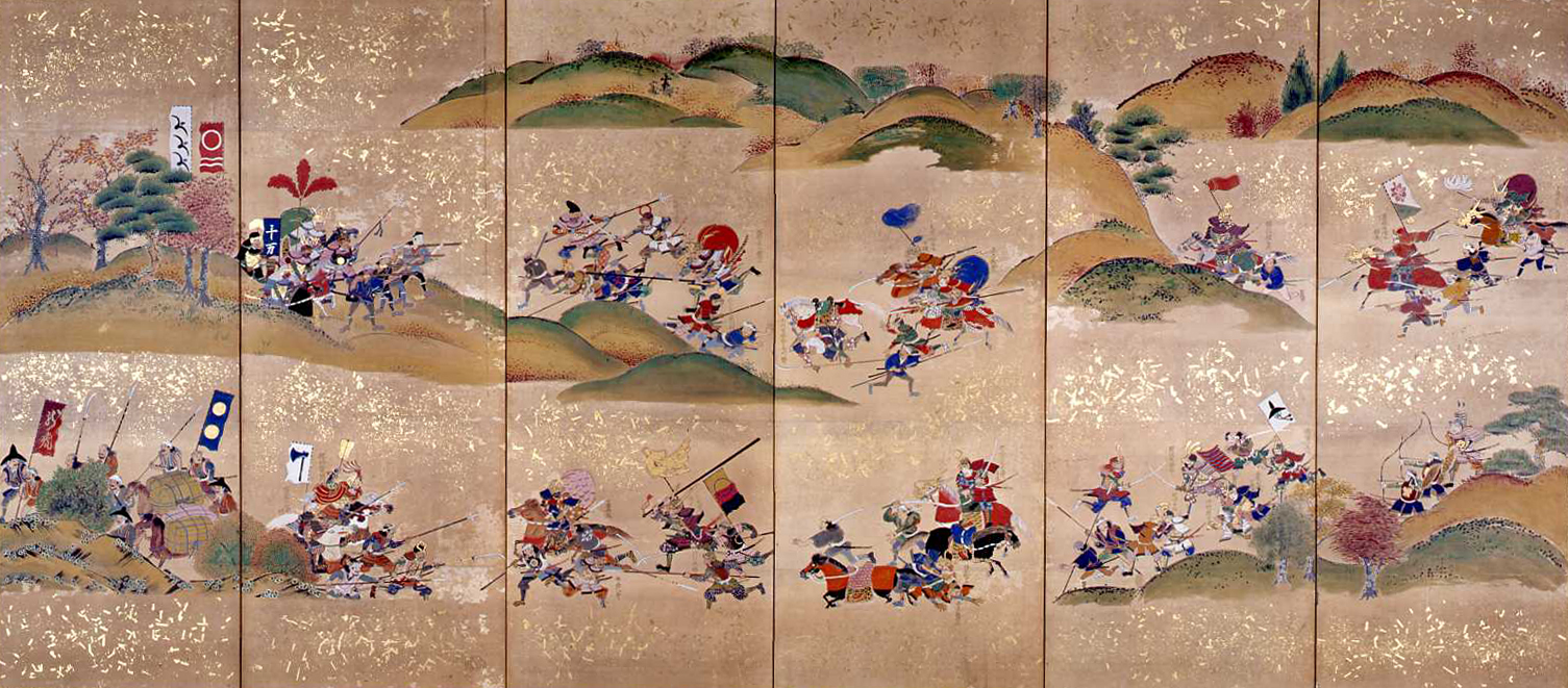 The left hand screen of "Hasedō-gassen-zu Byōbu" owned by Mogami Yoshiaki Historical Museum in Yamagata, Yamagata.